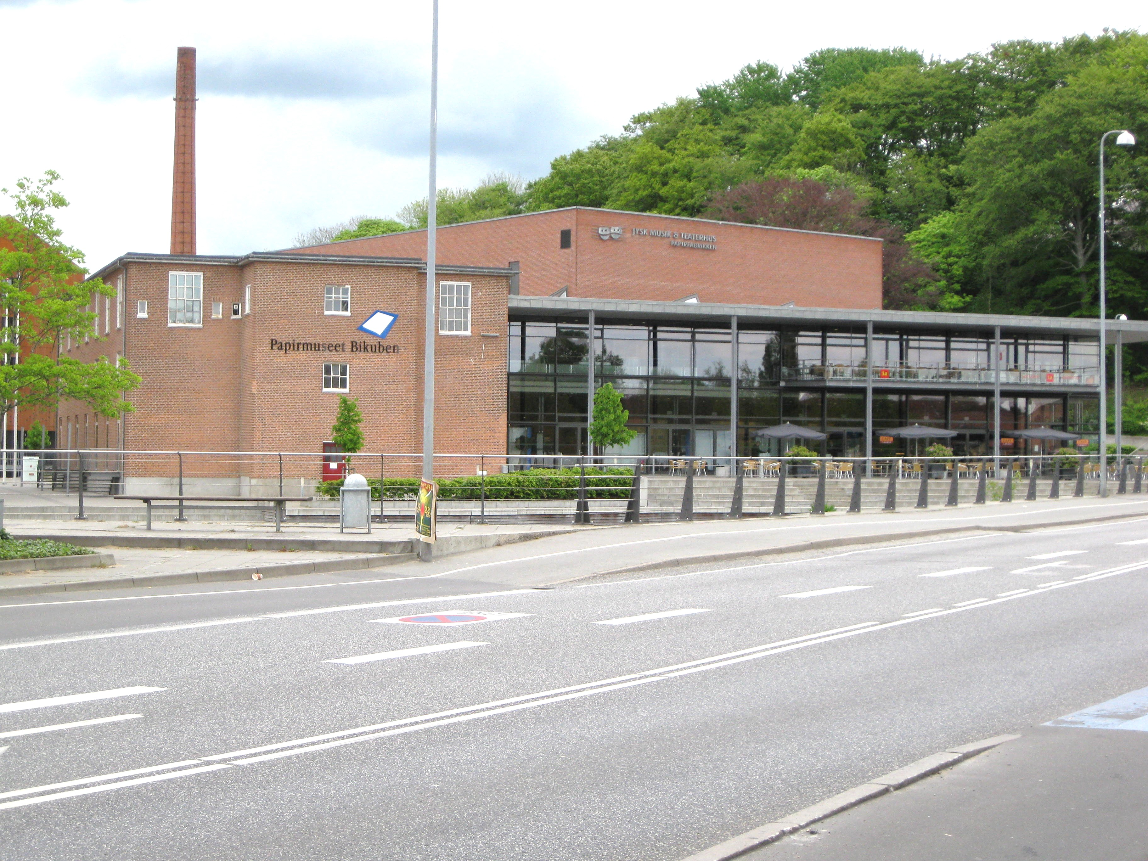 The former paper factory "Silkeborg Papirfabrik", today a culture building with teatre & museum. The town Silkeborg is located in Middle Jutland, Denmark.